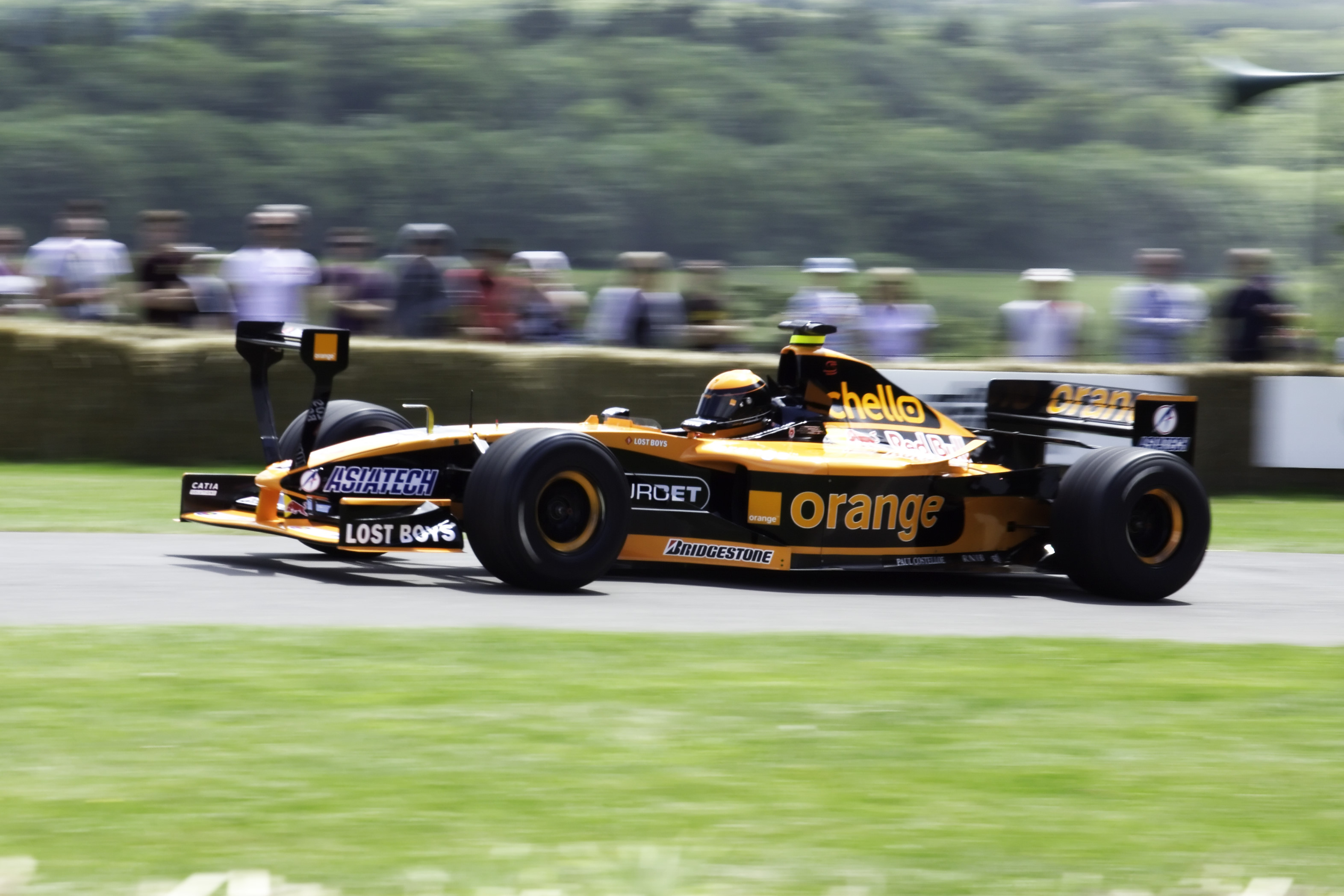 Arrows-Asiatech A22